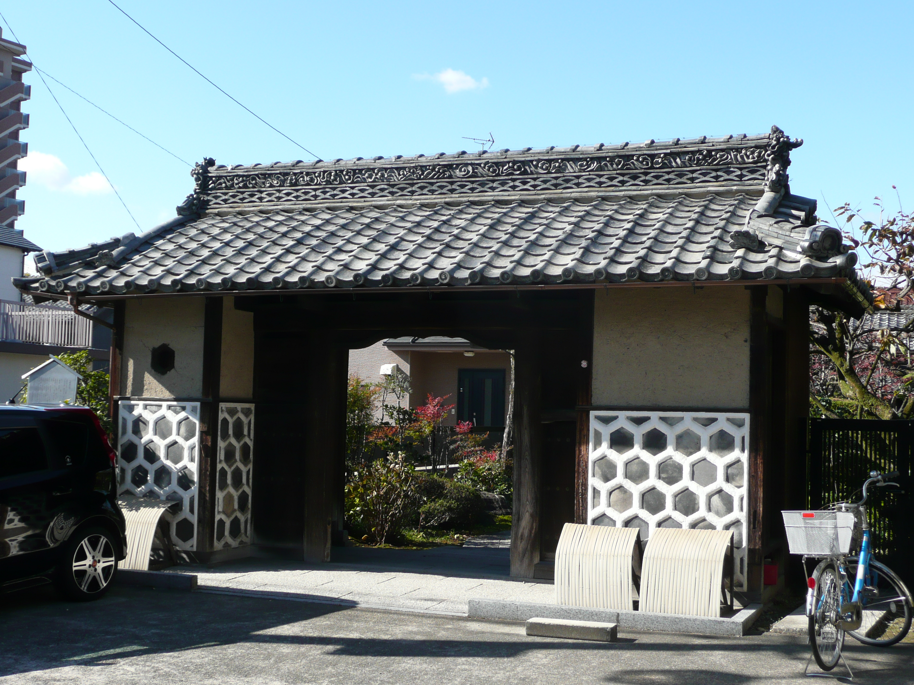 小折城の中門